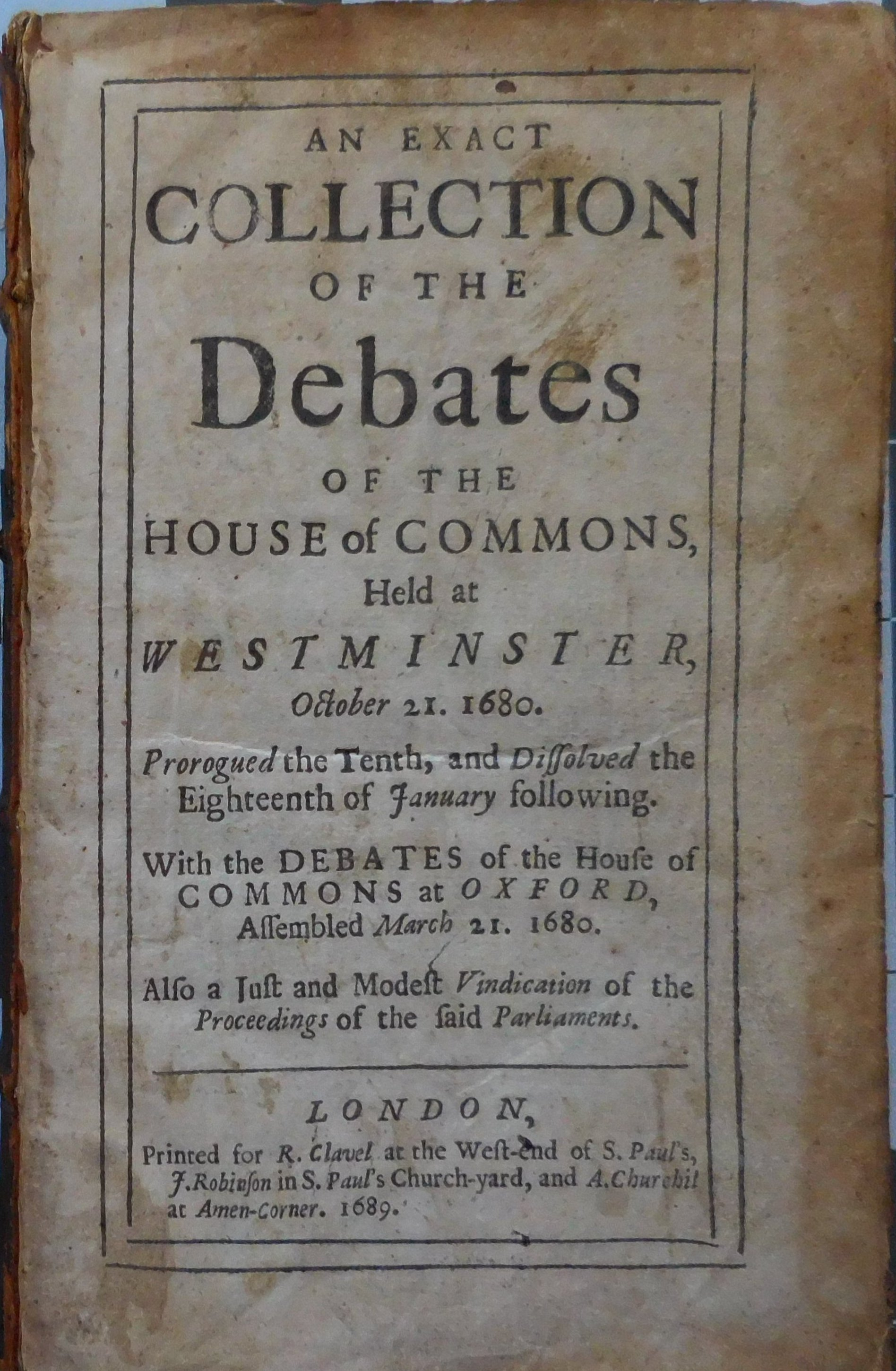 Title page of the book of debates which includes the Exclusion Bill Parliament of 21 October 1680.